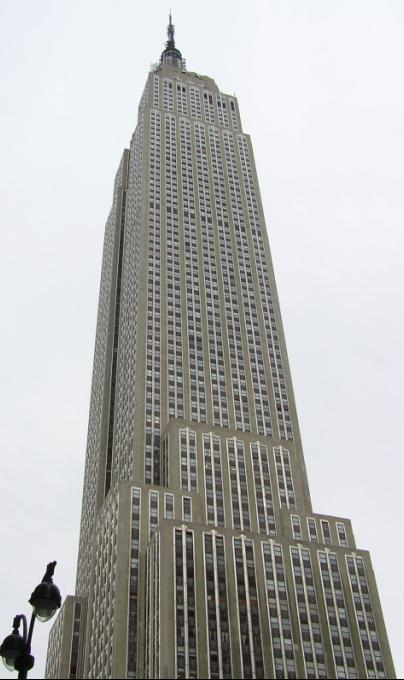 Empire states building, New York